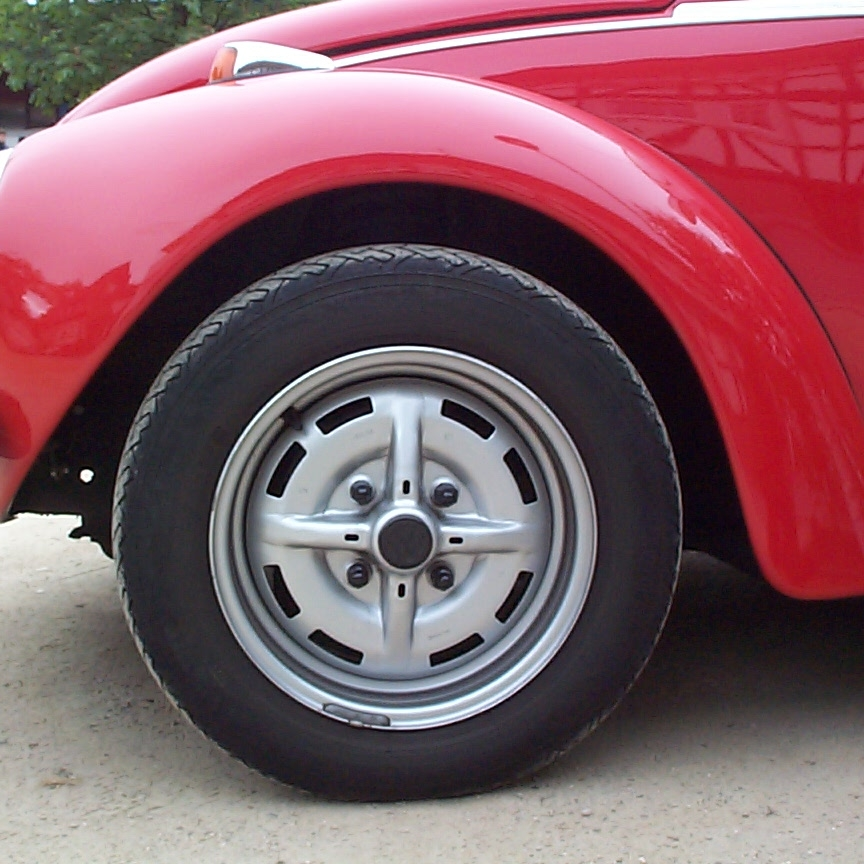 Steel rim of a Volkswagen VW beetle 1303 convertible.